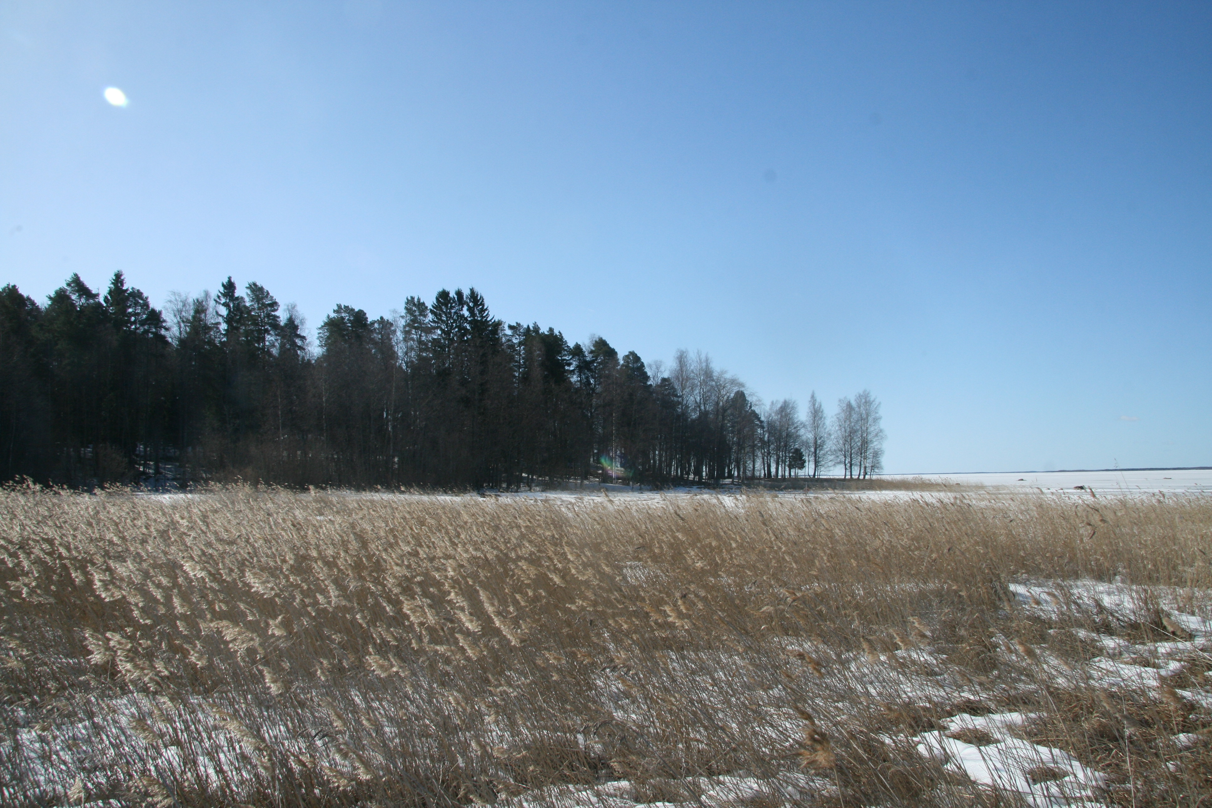 Vainoniemi in Joensuu